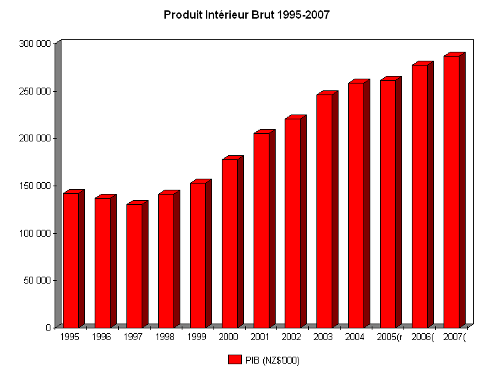 Gross Domestic Product (GDP) of the Cook Islands at Current Market Prices. Data from Cook Islands Statistic Office